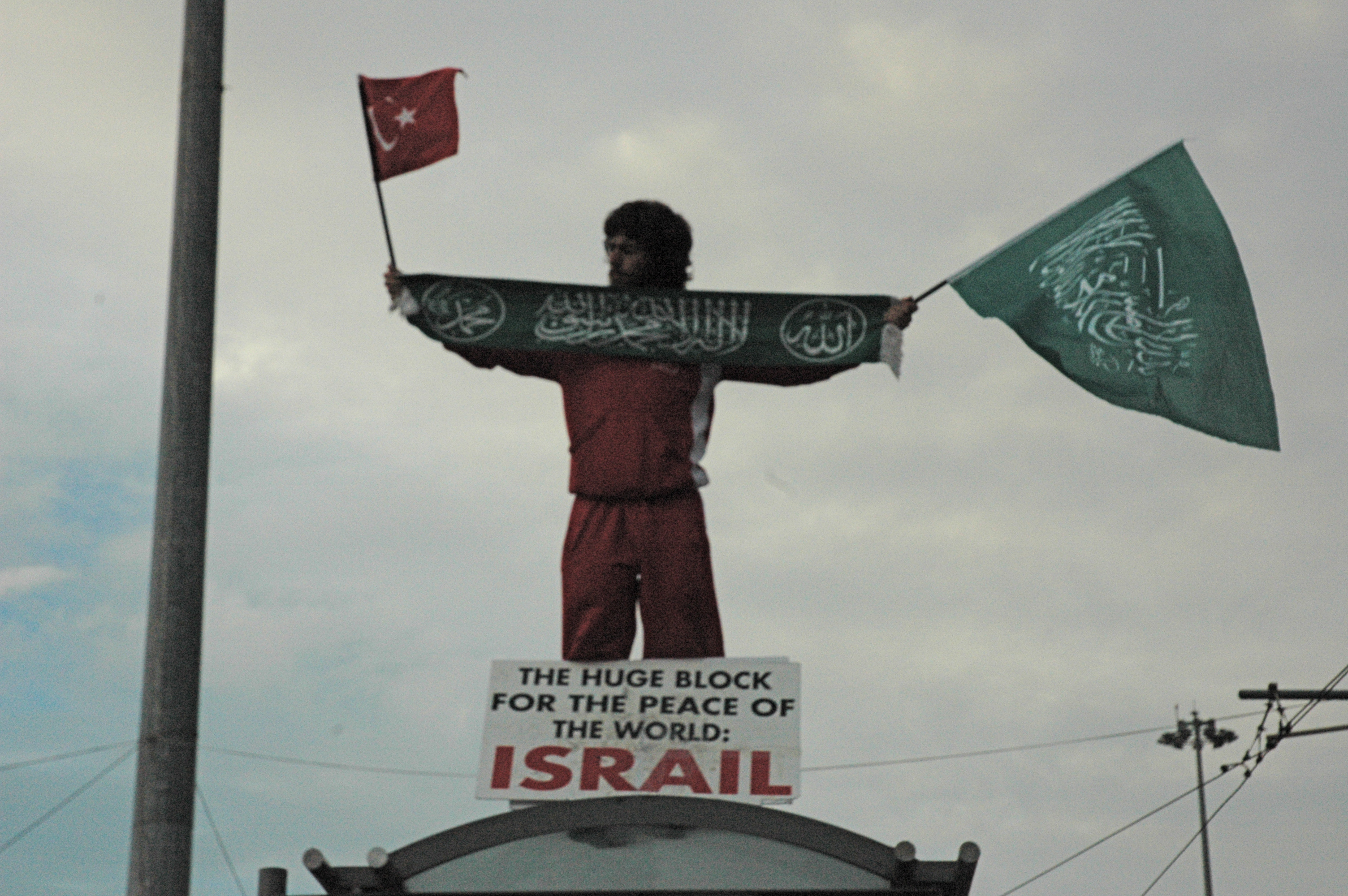 A man standing on a bus stop shelter holding the flag of Turkey and the flag of the Hamas during a rally on Taksim square, Istanbul, following the attack of the Freedom flotilla